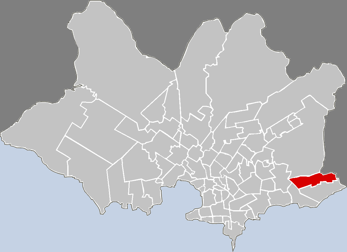 Map highlighting the given barrio in Montevideo.